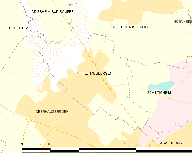 Map of French municipality